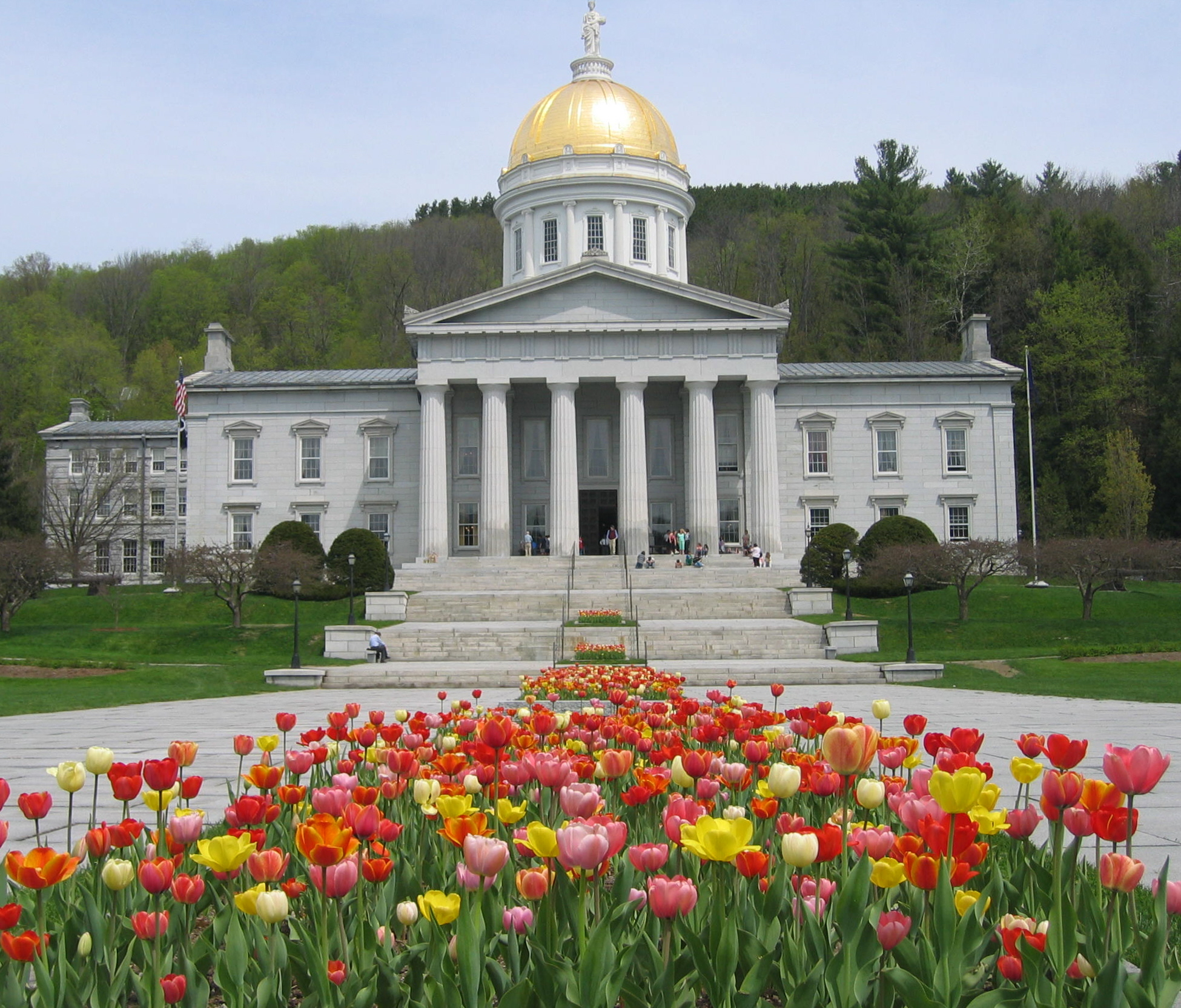 Vermont State House in spring